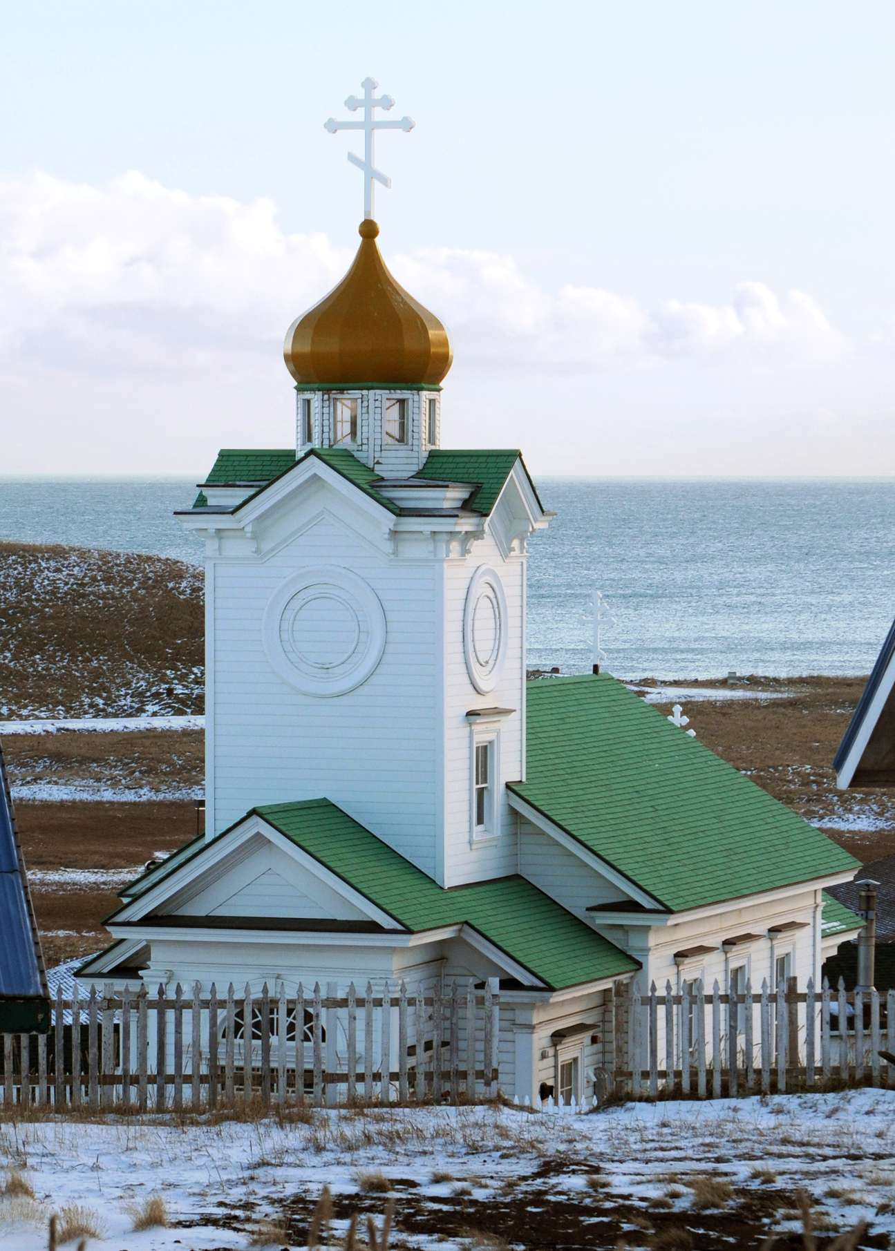 Sts Peter and Paul Russian Orthodox Church, St. Paul Island, Alaska, on Nov. 6, 2010. About 500 people live on the island 775 miles west of Anchorage in the Bering Sea. The Alaska National Guard brought Christmas to the island early Nov. 6 as part of its 54th annual Operation Santa Claus outreach to the state's remote communities. (U.S. Army photo by Staff Sgt. Jim Greenhill) (Released)